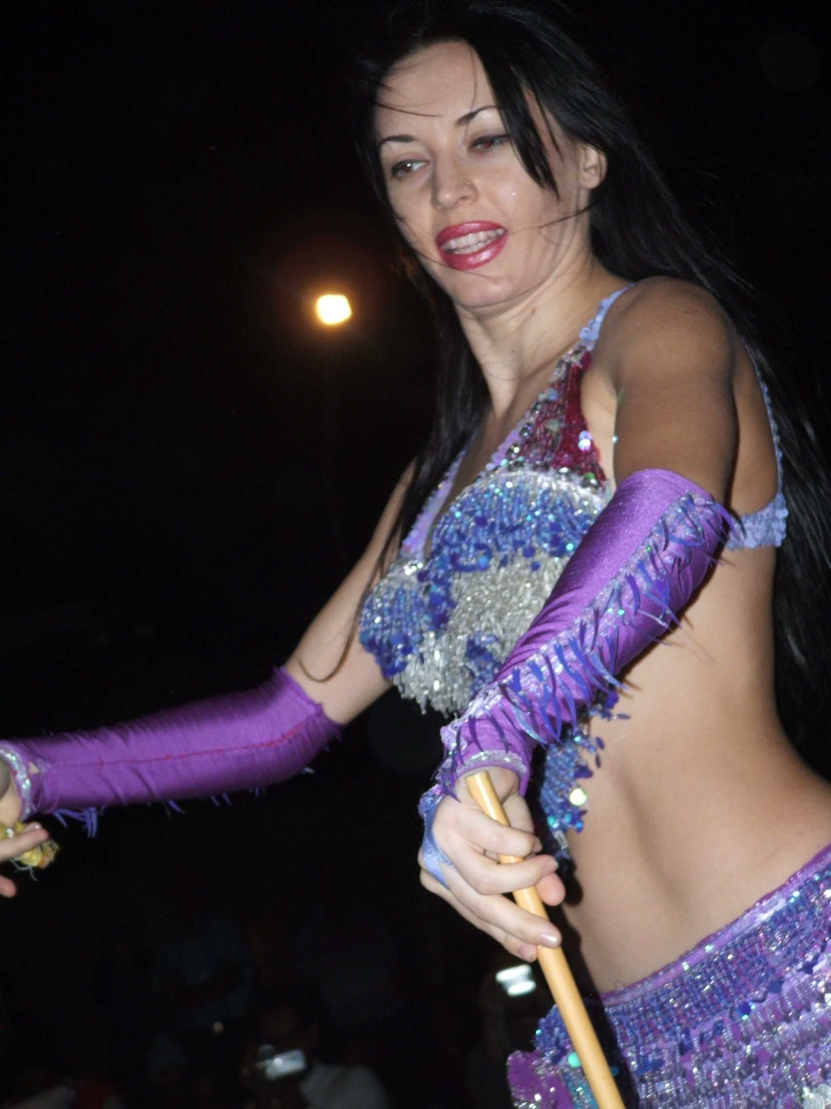 Belly dancer performing at a desert camp in Dubai, UAE.